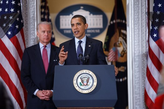 President Barack Obama and Vice President Joe Biden speak to state legislators about implementation of the Recovery Act in the Eisenhower Executive Office Building.